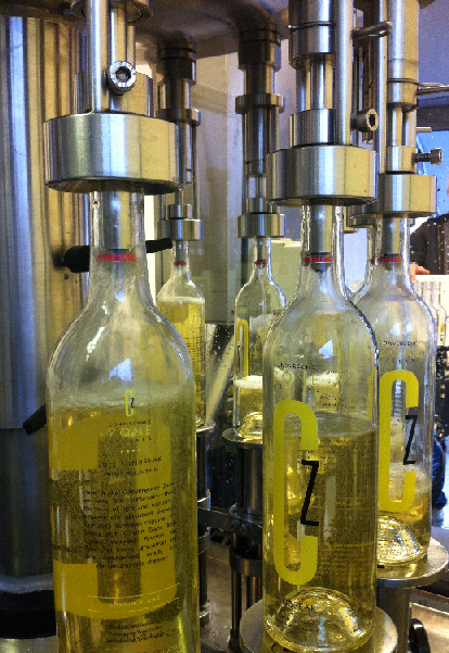 Chenin blanc wine from Washington State being filled in the bottling truck